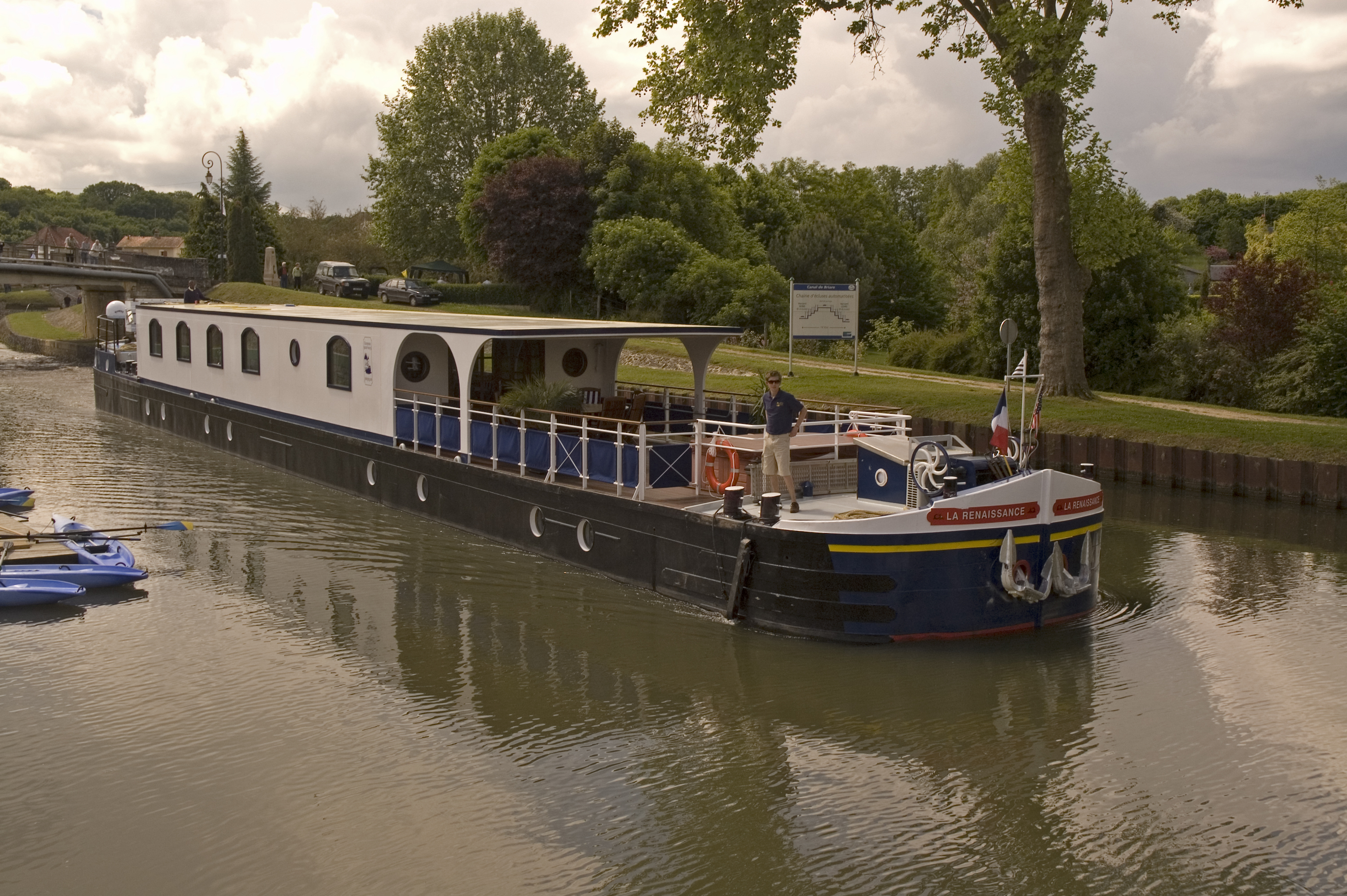 The hotel barge La Renaissances cruising on the Canal de Briare